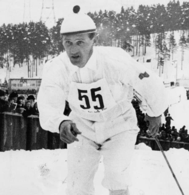 Sixten Jernberg at the 1958 FIS Nordic World Ski Championships in Lahti, Finland. Jernberg won the men's 50 km race and came third in the 30 km race.